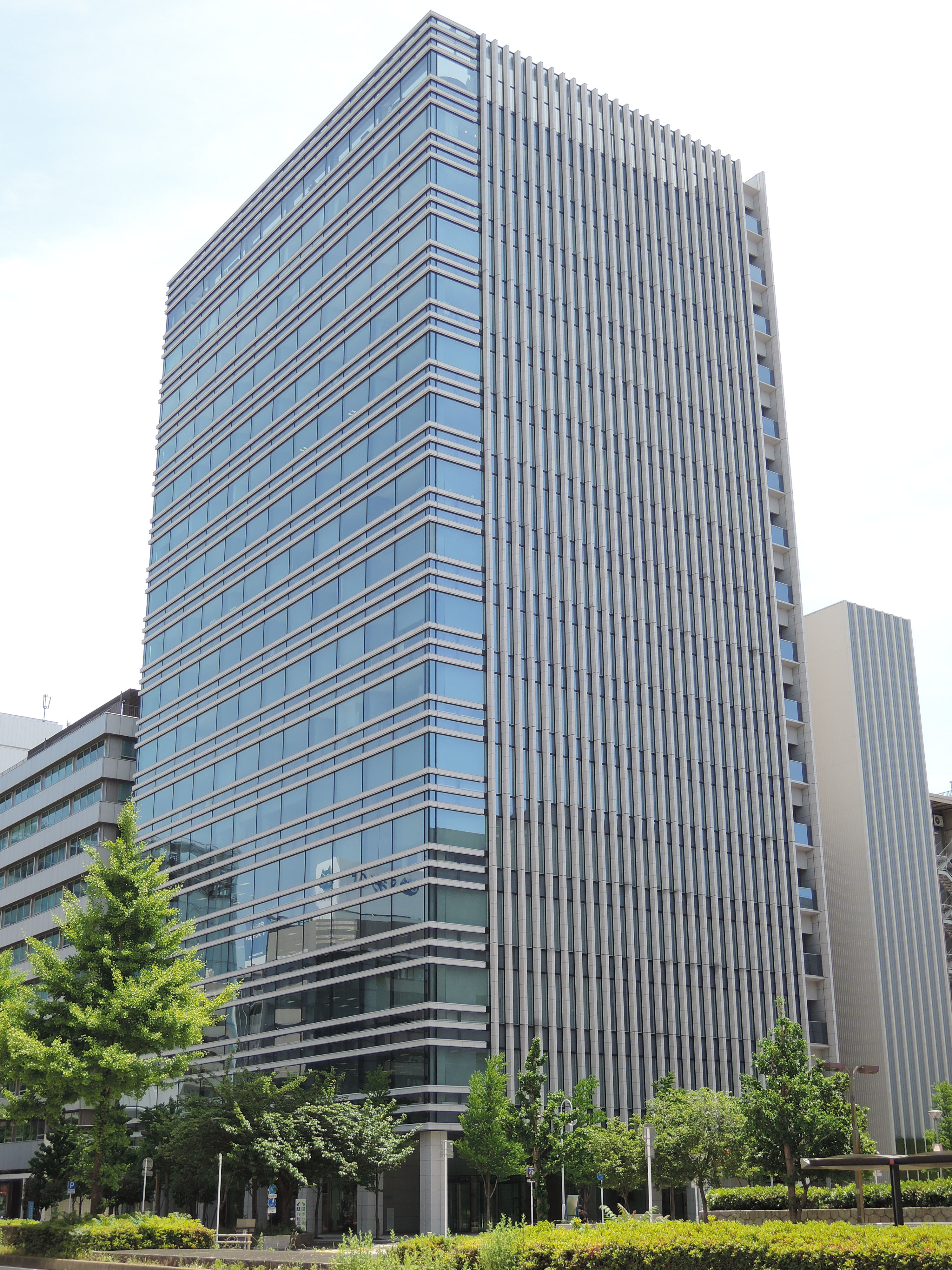 Nagoya Marubeni Building,Aichi prefecture,Japan